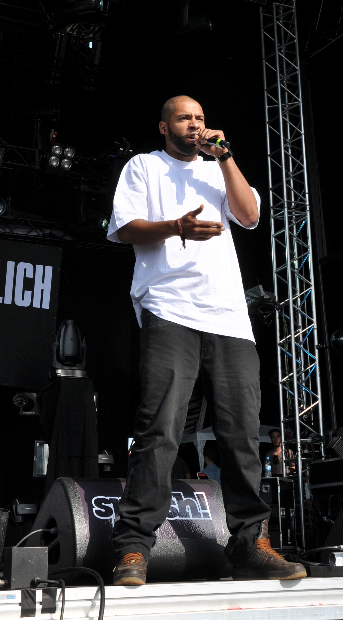 Megaloh at Splash! festival 2013